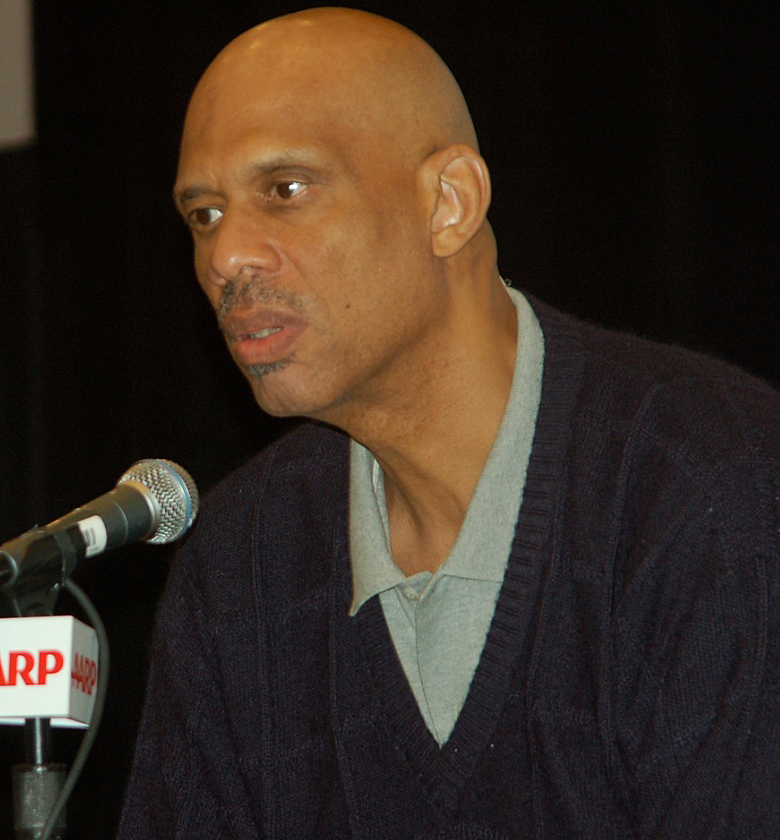 Kareem Abdul-Jabbar attending the AARP's 2011 Life@50+ National Event and Expo in September 2011.